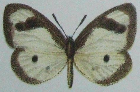 Aurivillius, Chr. Die Gross-schmetterlinge der Erde, von Dr. Adalbert Seitz. Fauna Africana (1908?)Plate 13 peucetia accepted name Ornipholidotos peucetia (Hewitson, 1866)